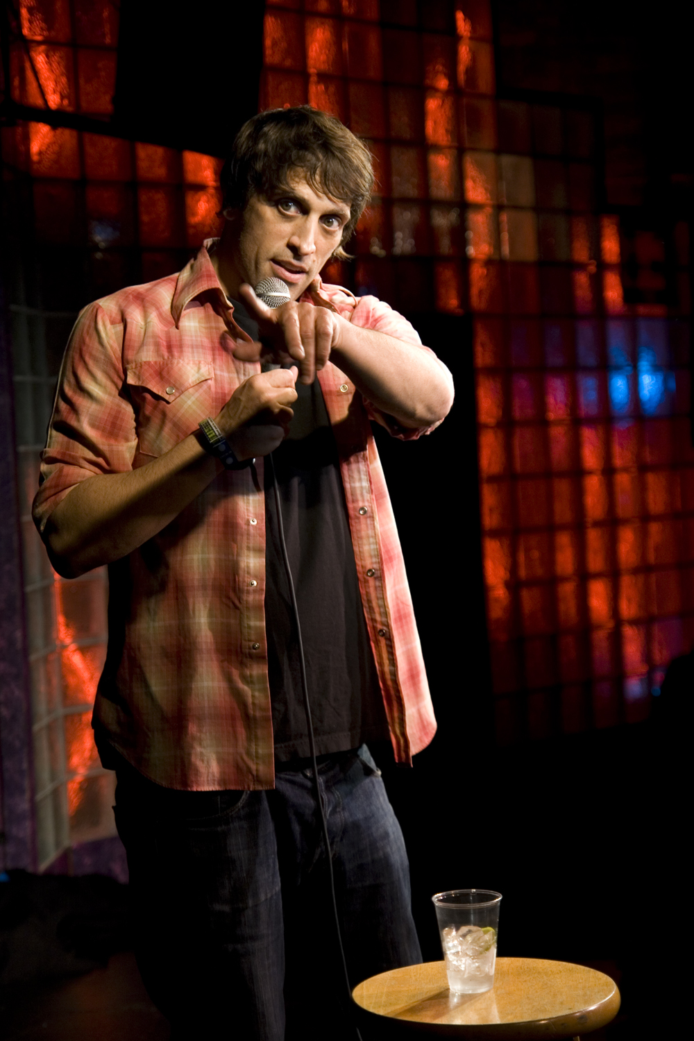 SXSW Comedy Fest 2010 Esther's Follies, The Velveeta Room, Austin Texas.